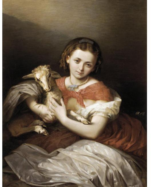 Romuald Chojnacki - Young Girl With A Lamb